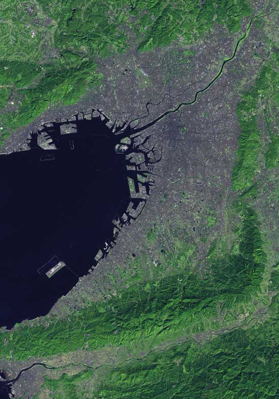 Satellite image of Osaka, Japan